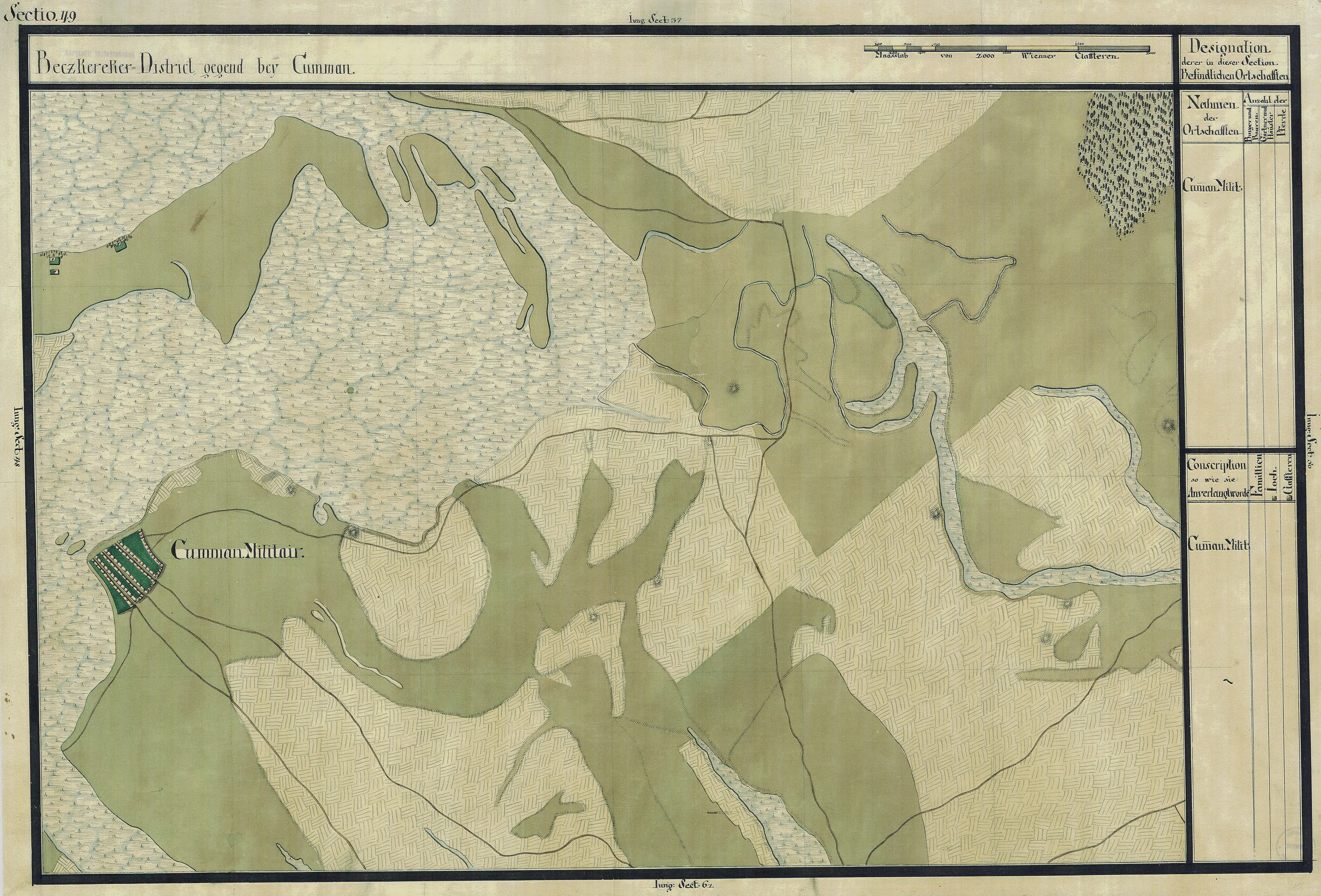 The Banat region in the cadastral maps: Josephinische Landesaufnahme, 1769-72. Josephinische Landaufnahme pg049